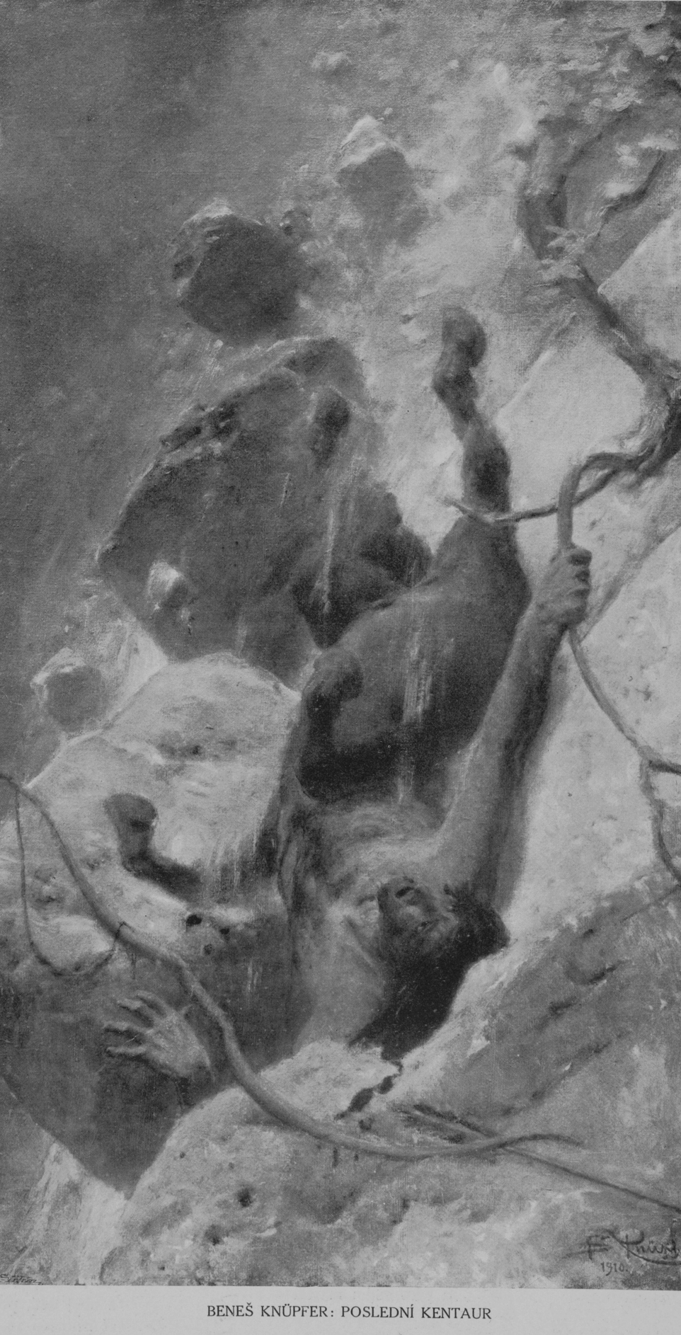 Beneš Knüpfer: The last Centaur (B/W repro Zlatá Praha 1911)